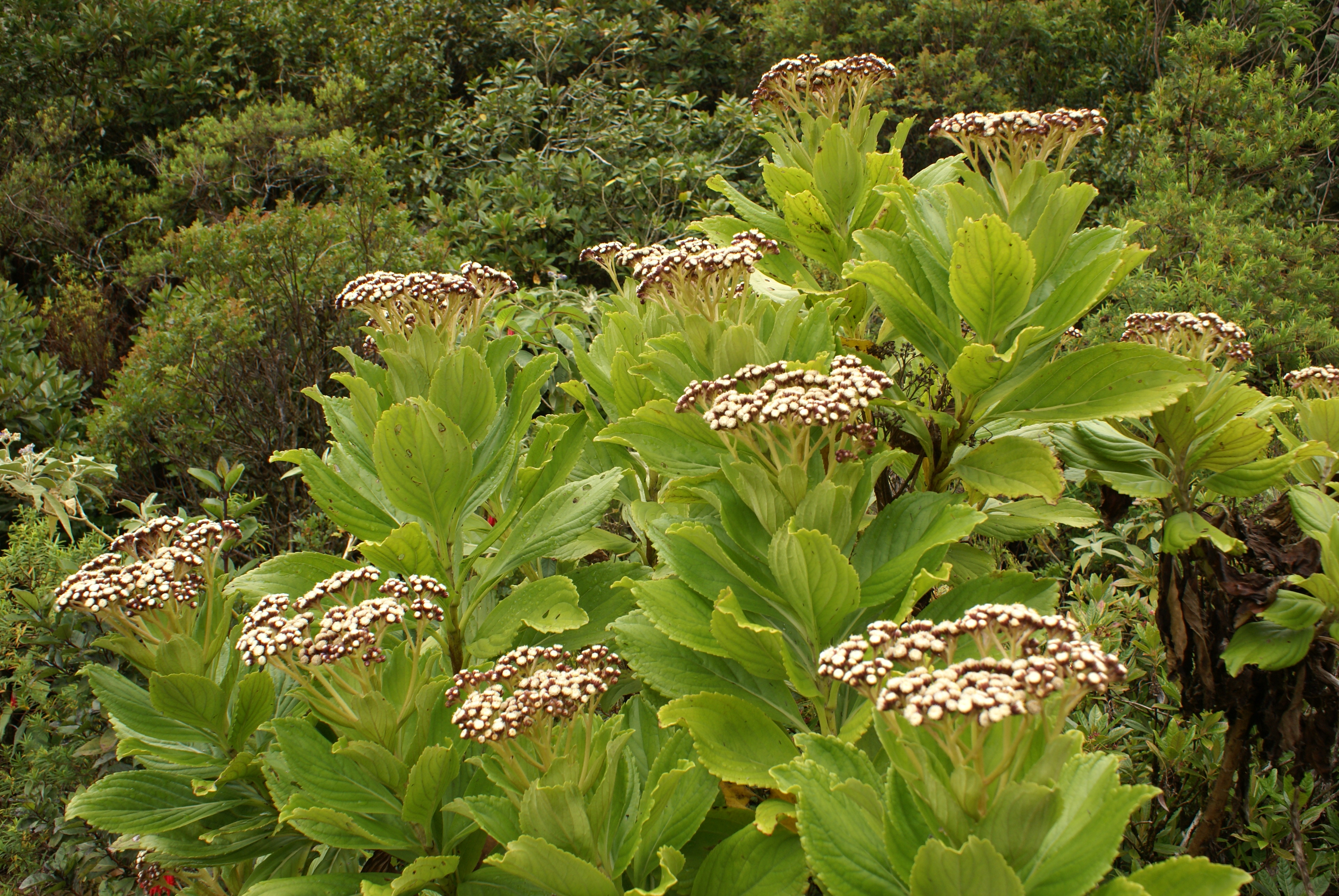 Psiadia boivinii, a shrub species belonging to Asteraceae family, endemic to Réunion island